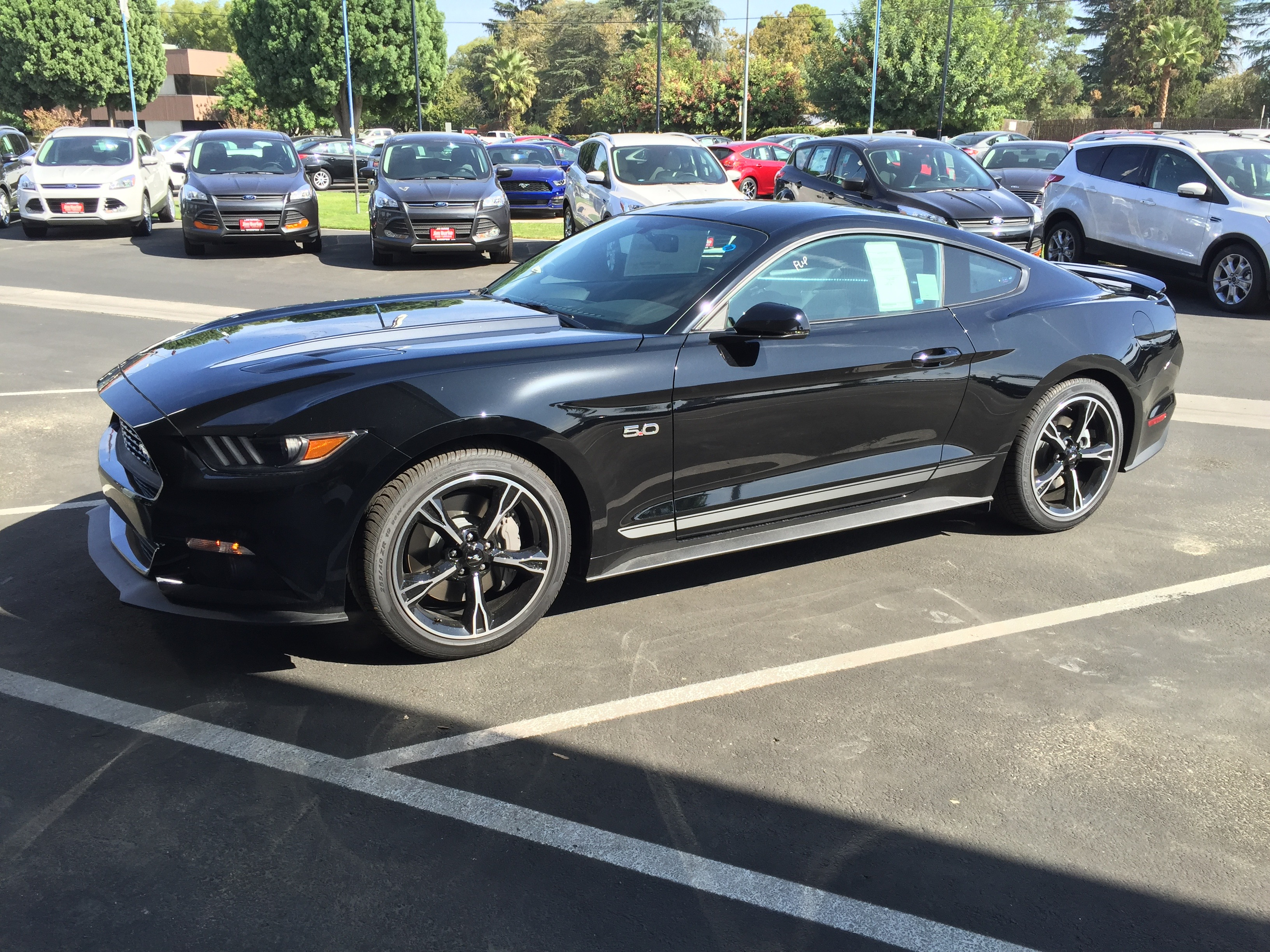 My Mustang GT/CS